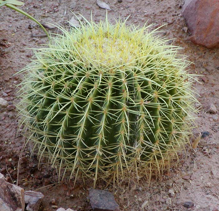 Photo of Echinocactus grusonii at the Desert Demonstration Garden in Las Vegas